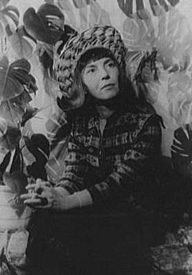 Title: Portrait of Loren MacIver Abstract/medium: 1 photographic print : gelatin silver.